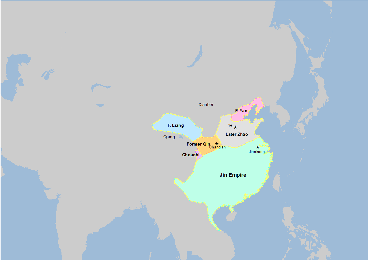 Map showing Eastern Jin, Later Zhao, Former Qin, Former Yan and Former Liang kingdoms